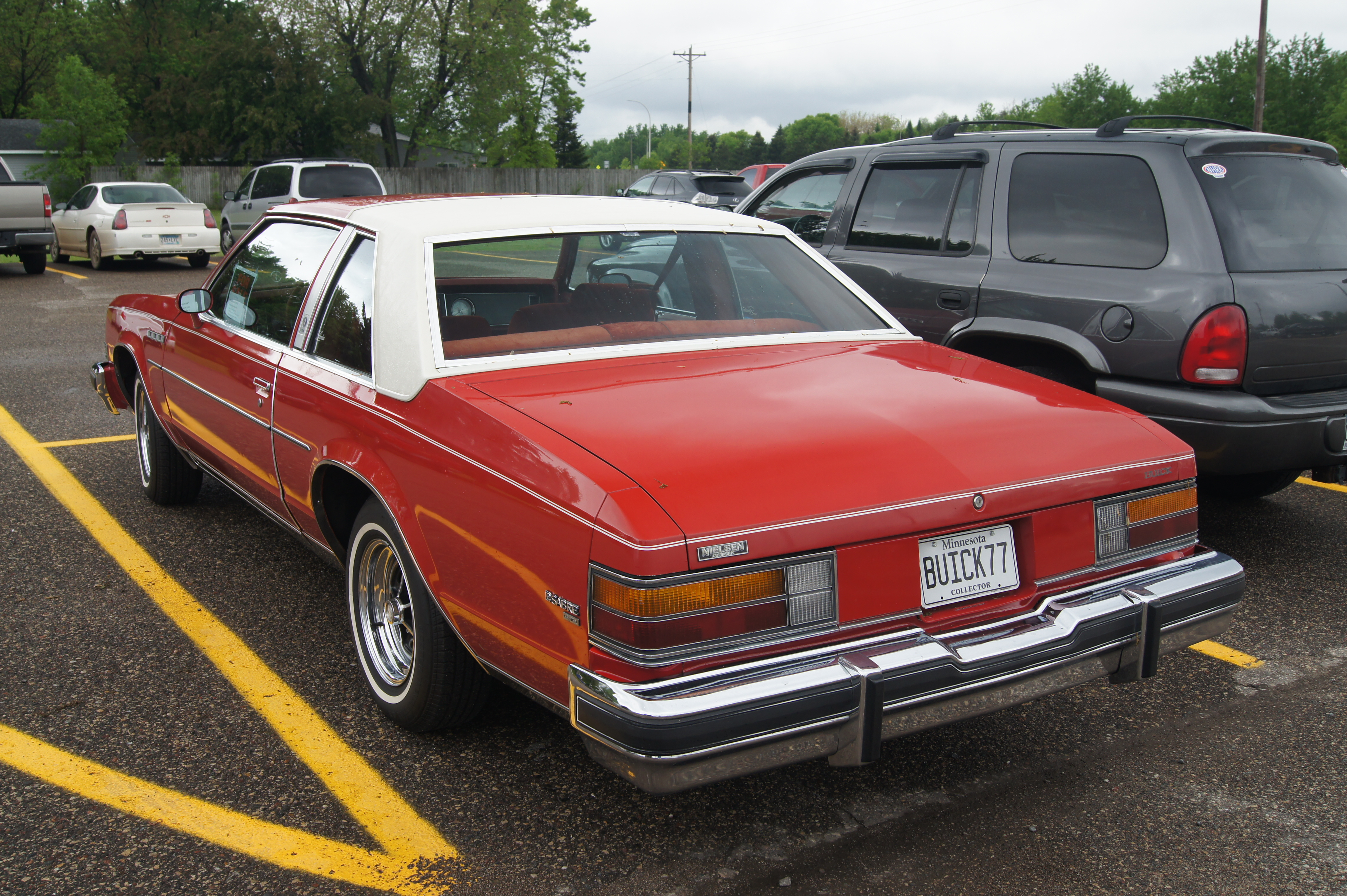 North Star Studeb@ker Drivers Club 41st Annual Car Show Memorial Day 2015 Blacksmith Lounge Hugo, Minnesota Click here for more car pictures at my Flickr site.